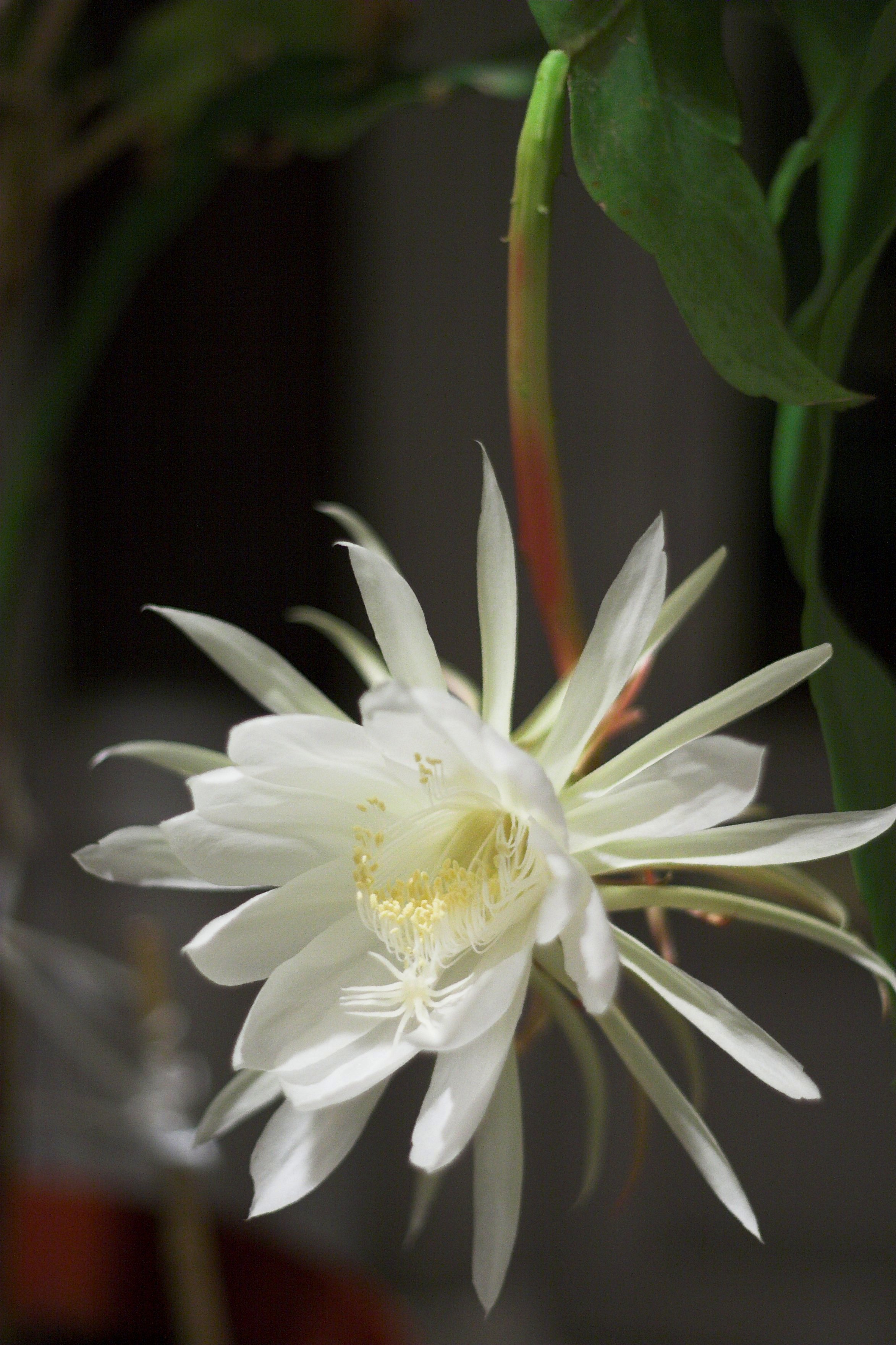 Night Blooming Cereus